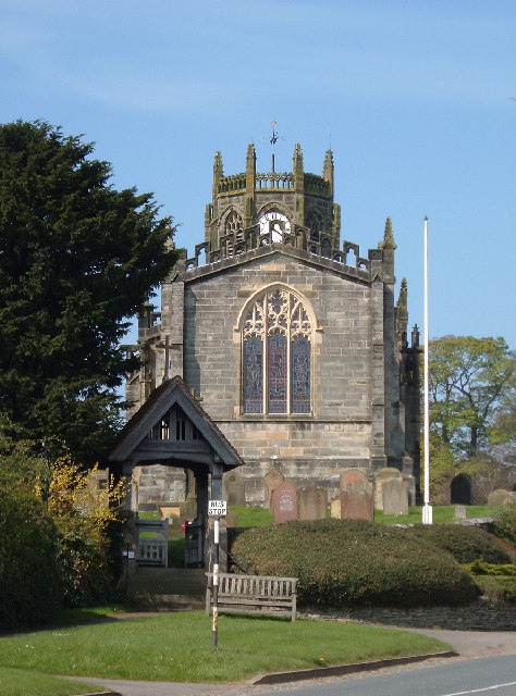 St Michael's Coxwold.